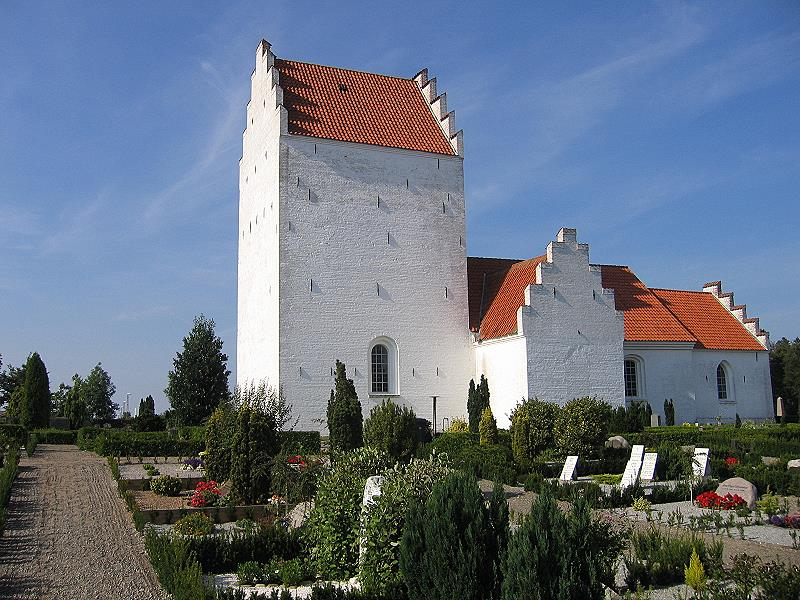 the church of the danish village Elling, view from the south